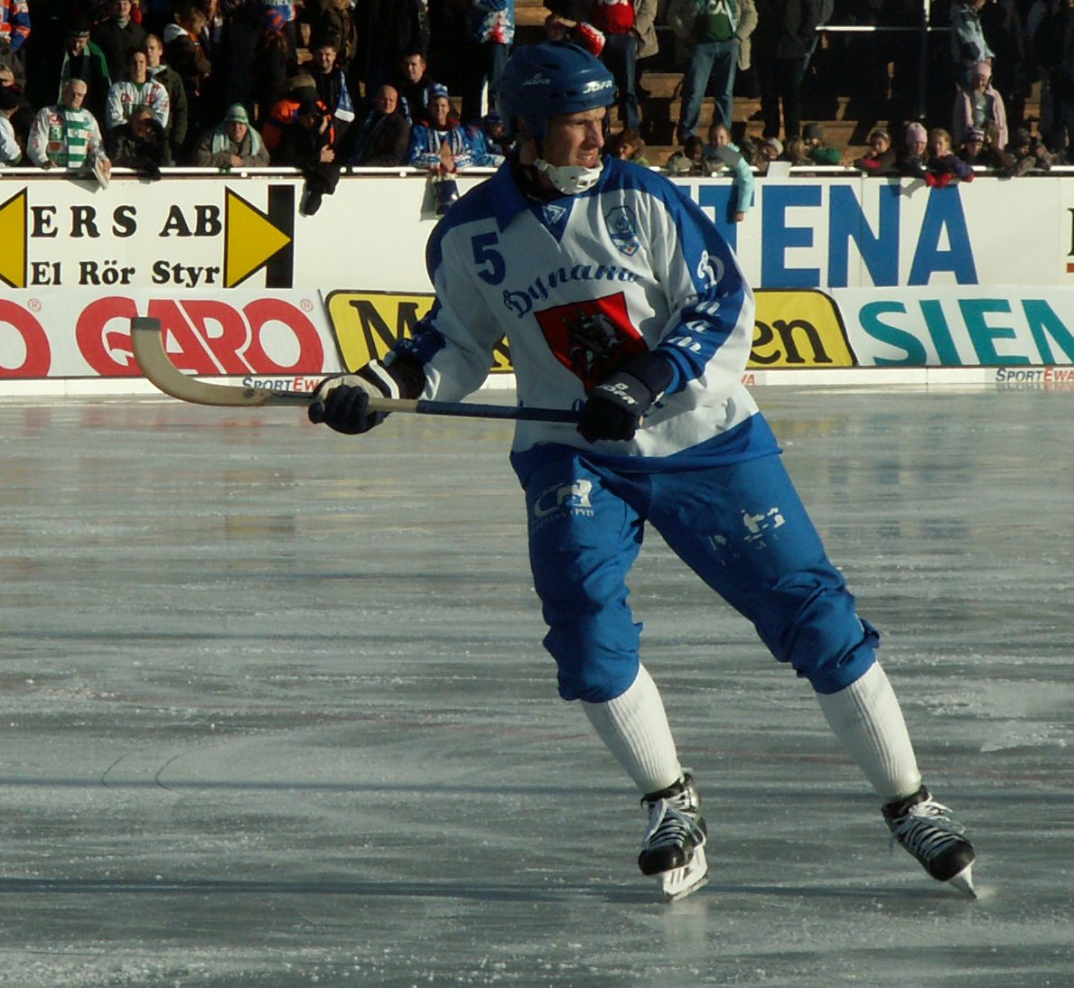 Andrej Zolotarev during bandy world cup 2007